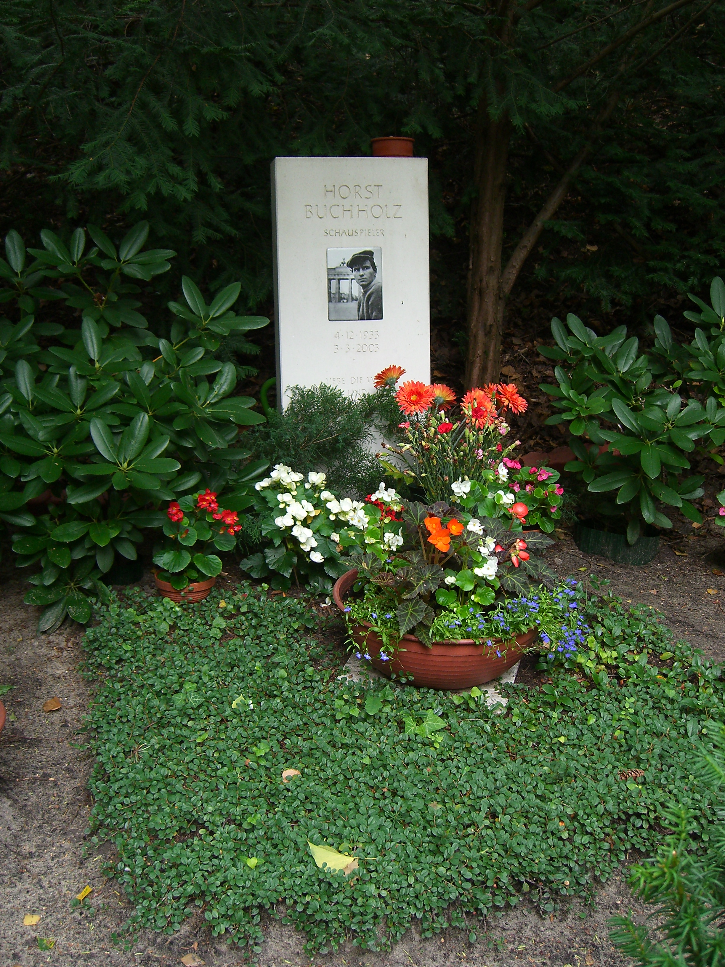 grave of actor Horst Buchholz at the Friedhof Heerstraße in Berlin.